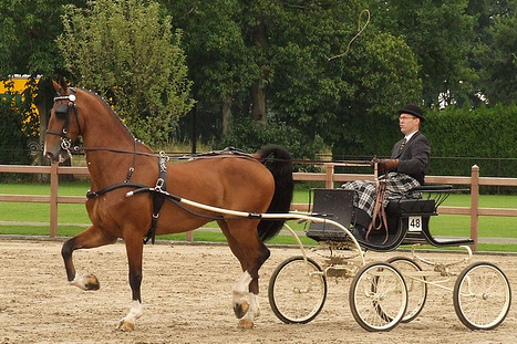 Wonderful horses and incredible people. Holland is a beautiful land and full of good surprises.